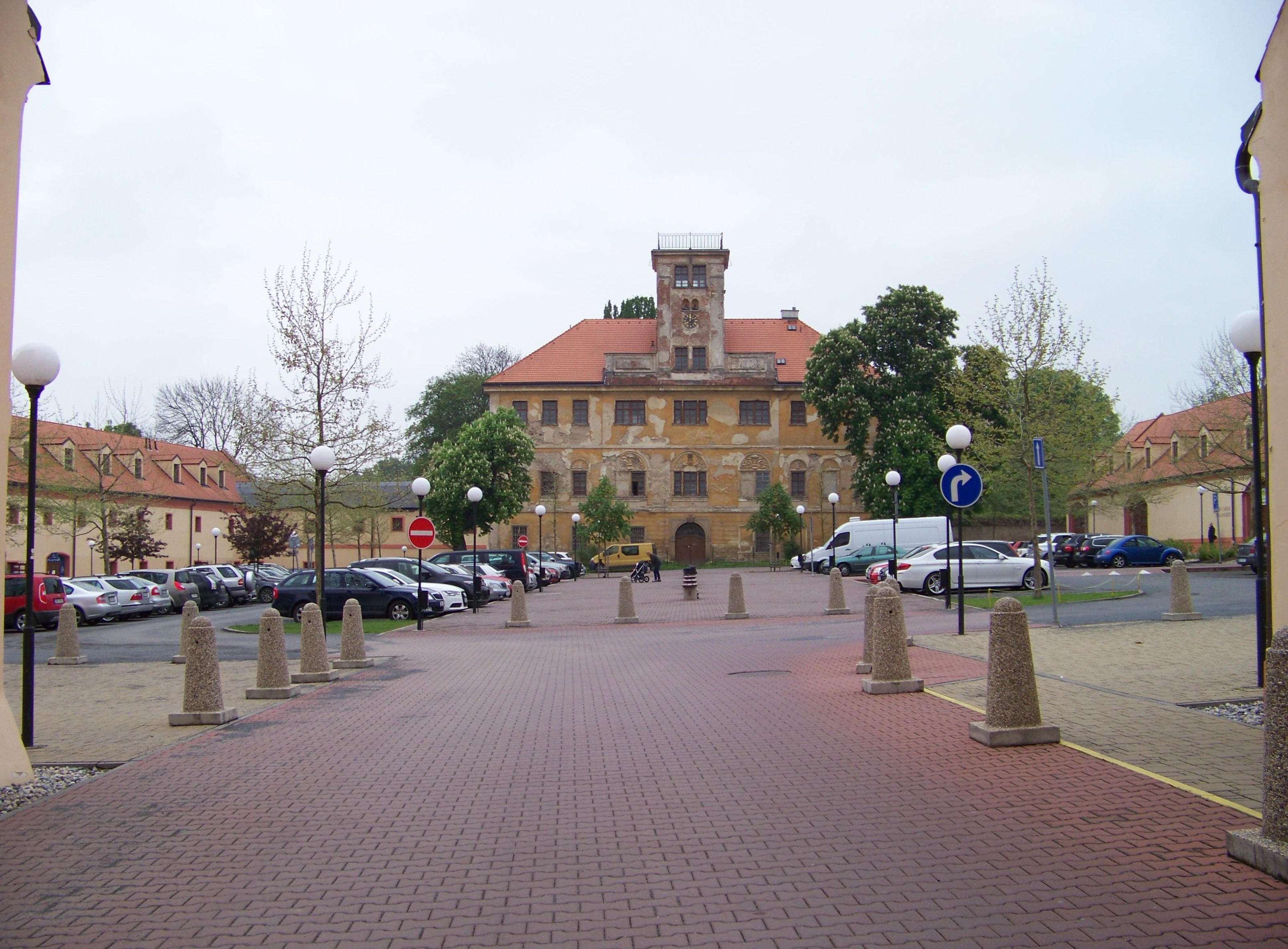 Prague-Kunratice, Czech Republic. Kunratice Castle.